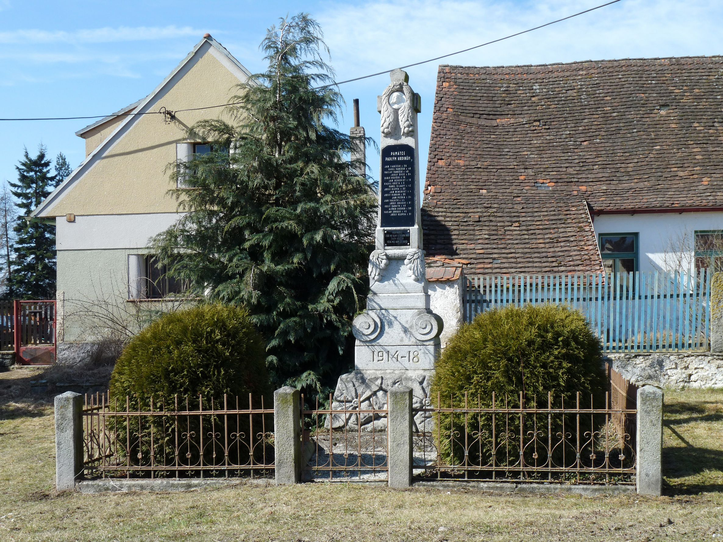 Memorial to those killed in the Great War in the municipality of Slatina, Klatovy District, Czech Republic